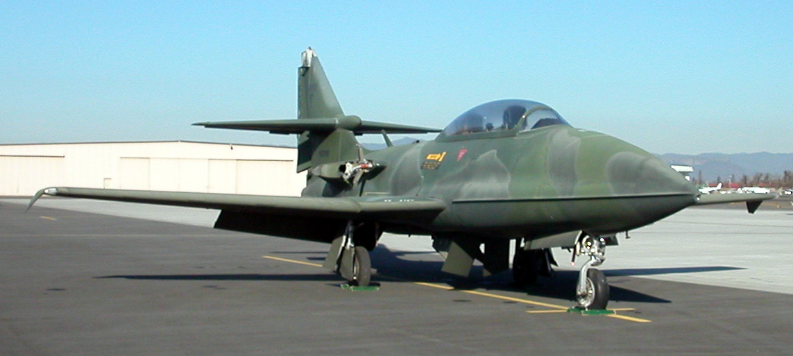 Tangobar, Feb 2007